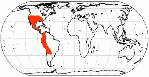 Canis dirus range based upon fossil finds